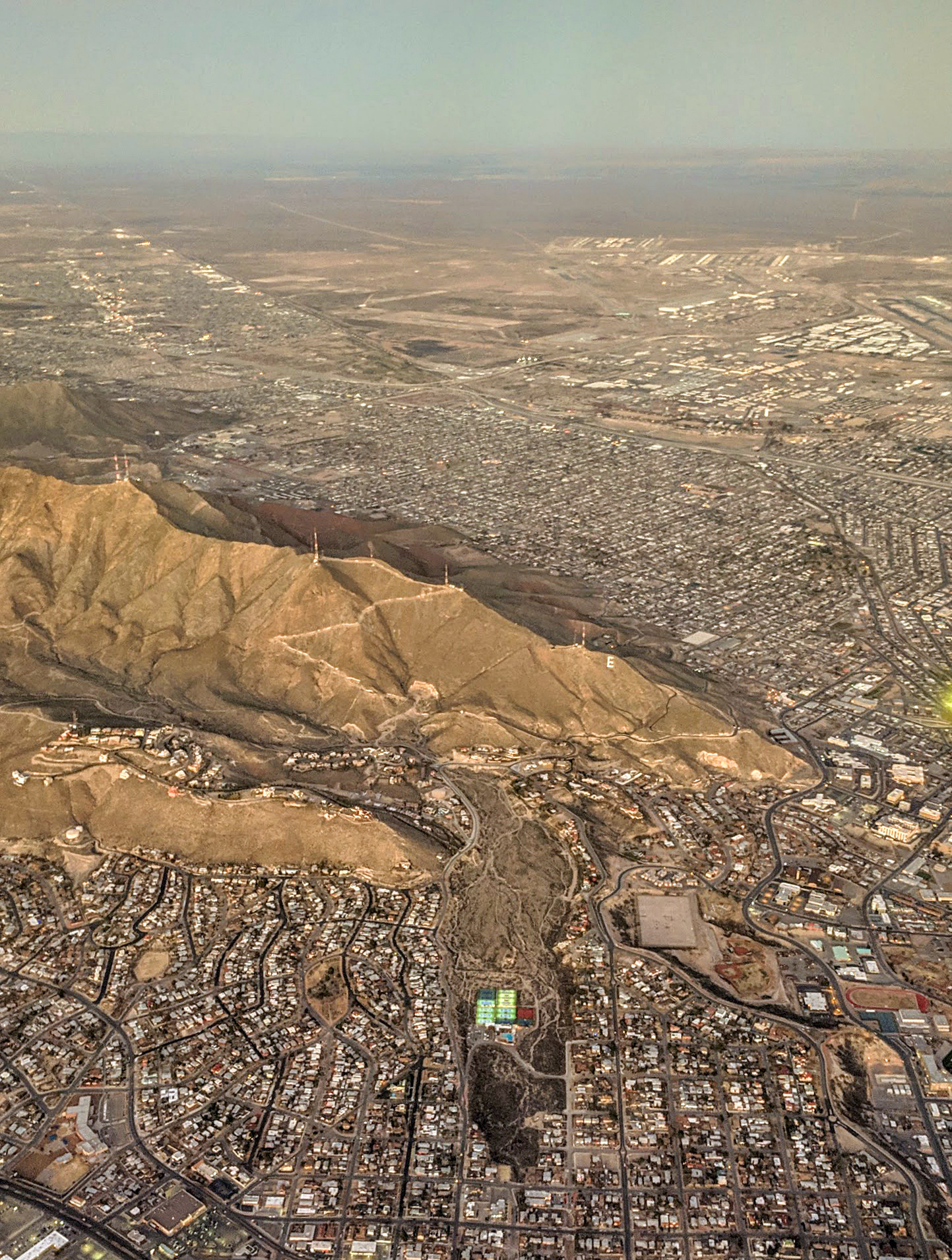 Aerial view from the sourthwest, of El Paso's Arroyo Park, or Billy Rogers Arroyo, and the Franklin Mountains, with El Paso's west side in the foreground and Northeast El Paso and Fort Bliss in the background